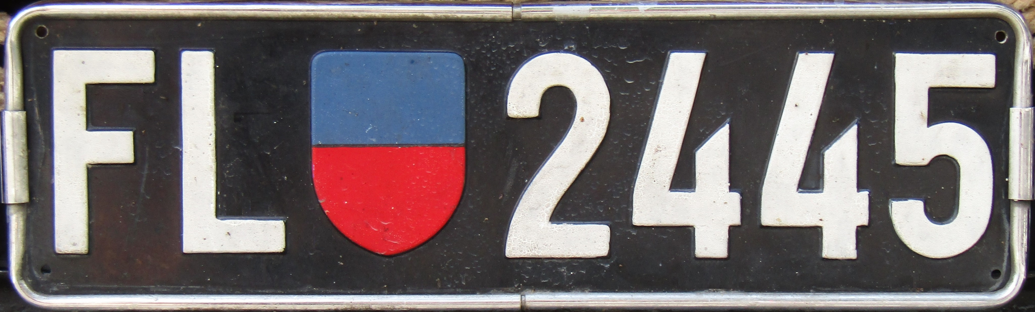 Liechtenstein license plate 1920-1957